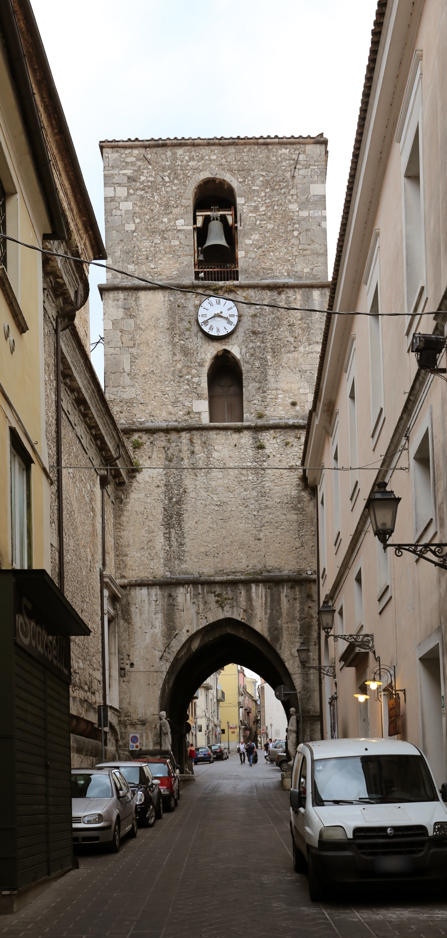 Cathedral (Isernia)